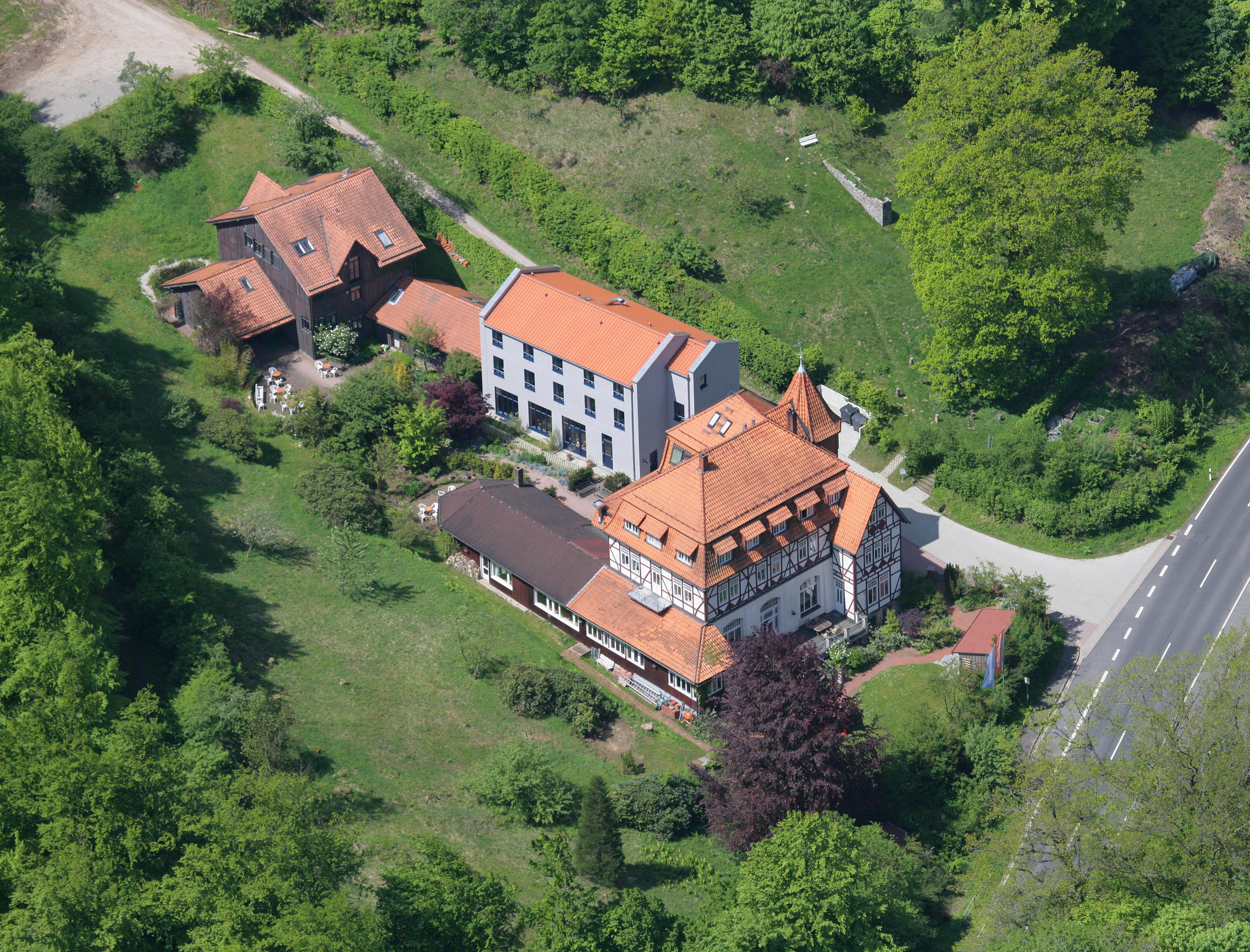 Aerial photograph